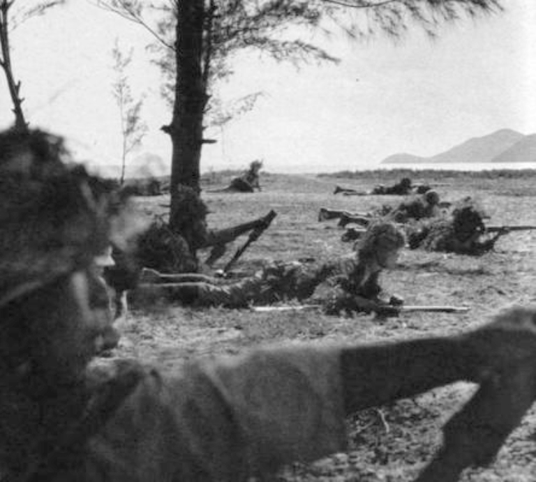 Soldiers of the 5th division of the Imperial Japanese Army are landing on a beach in Malaya, December 1941